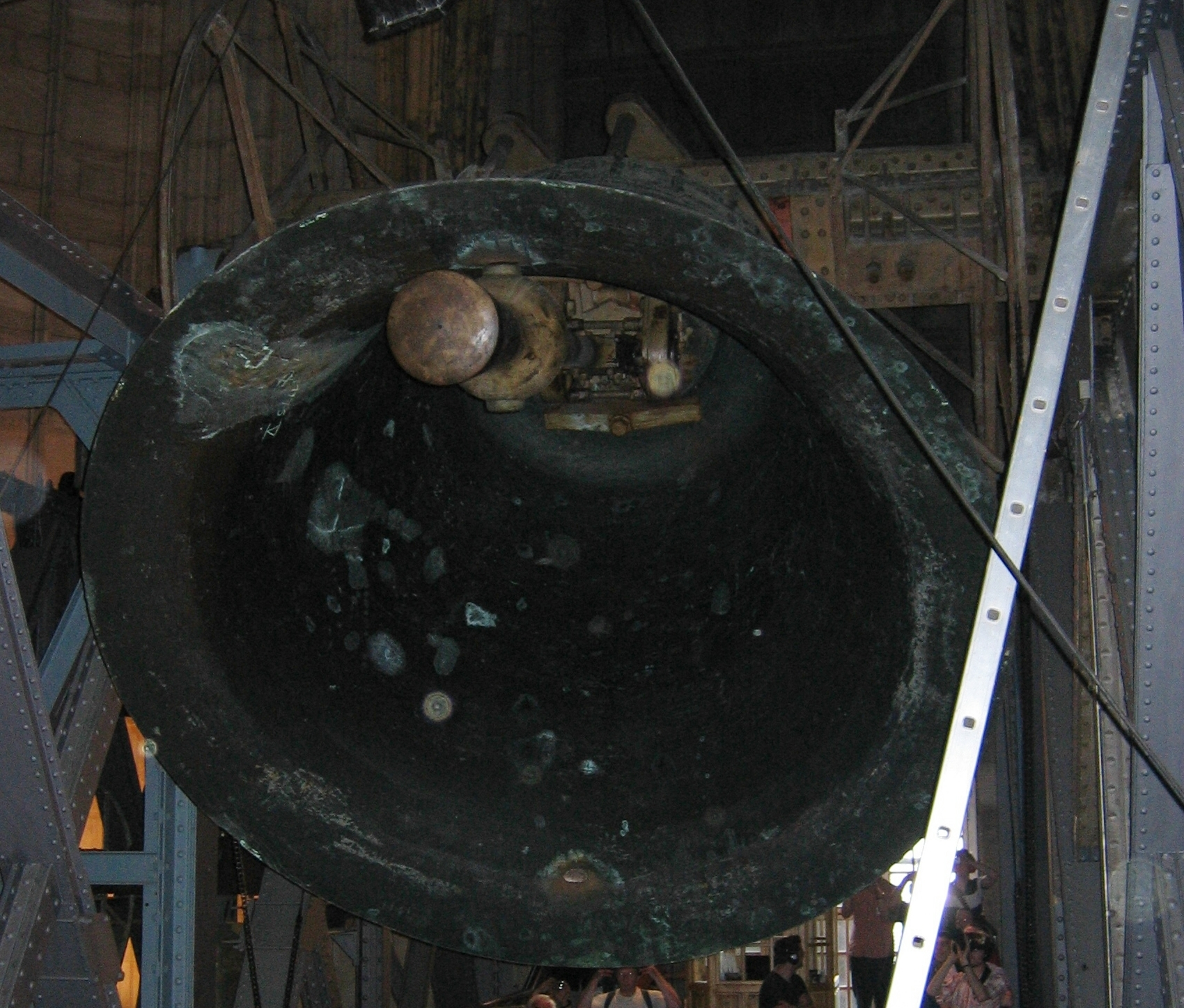 Description – Läutende St. Petersglocke des Kölner Domes Source – own work Date – Sommer 2006 Author – Andreasdziewior